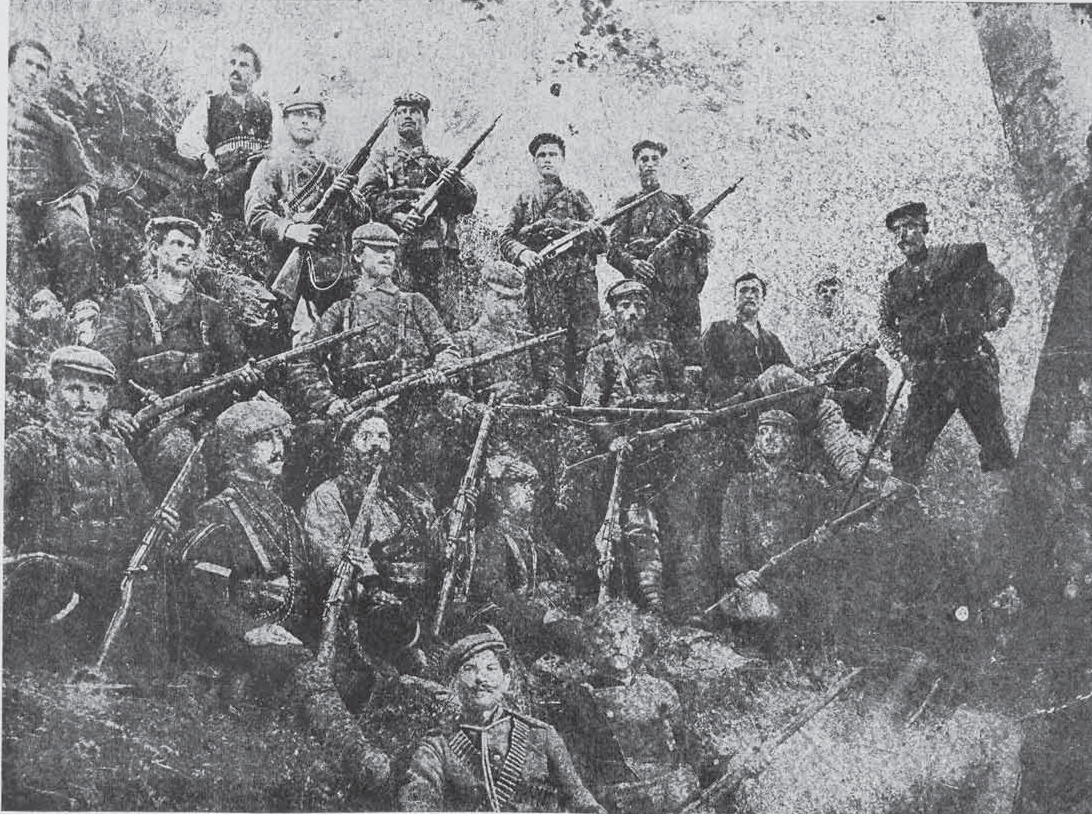 Portrait of cheta of Kosta Popeto